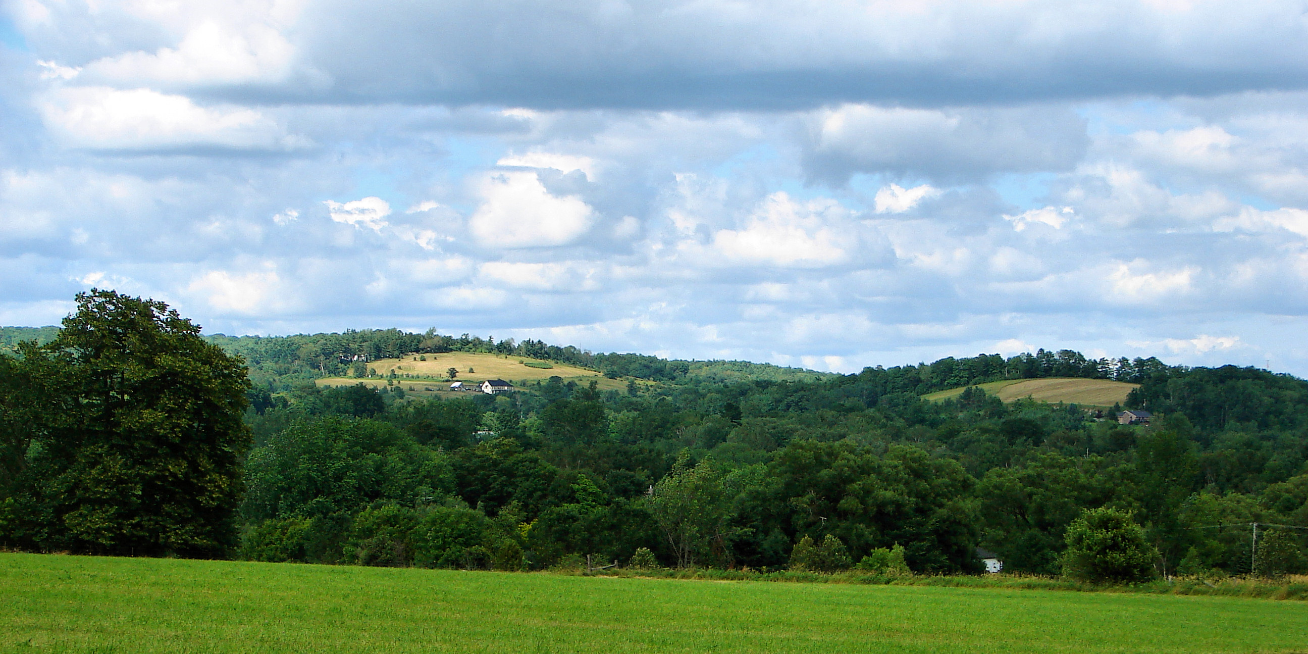 Hamilton Township, Ontario, Canada